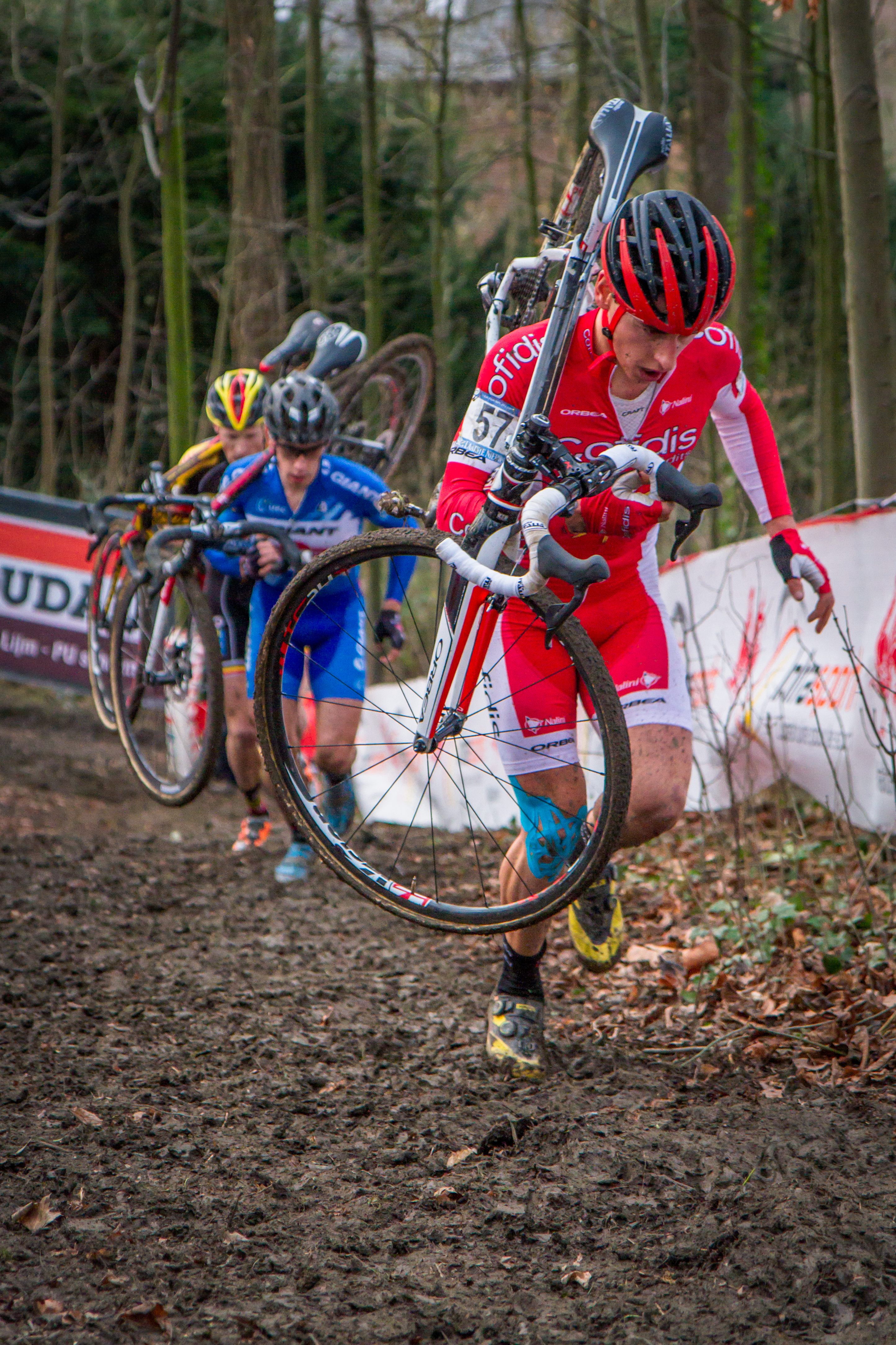 Clement Venturini (FRA), Lars van der Haar (NLD) and Klaas Vantornout (BEL). UCI Cyclocross World Cup, Namur, 2015.